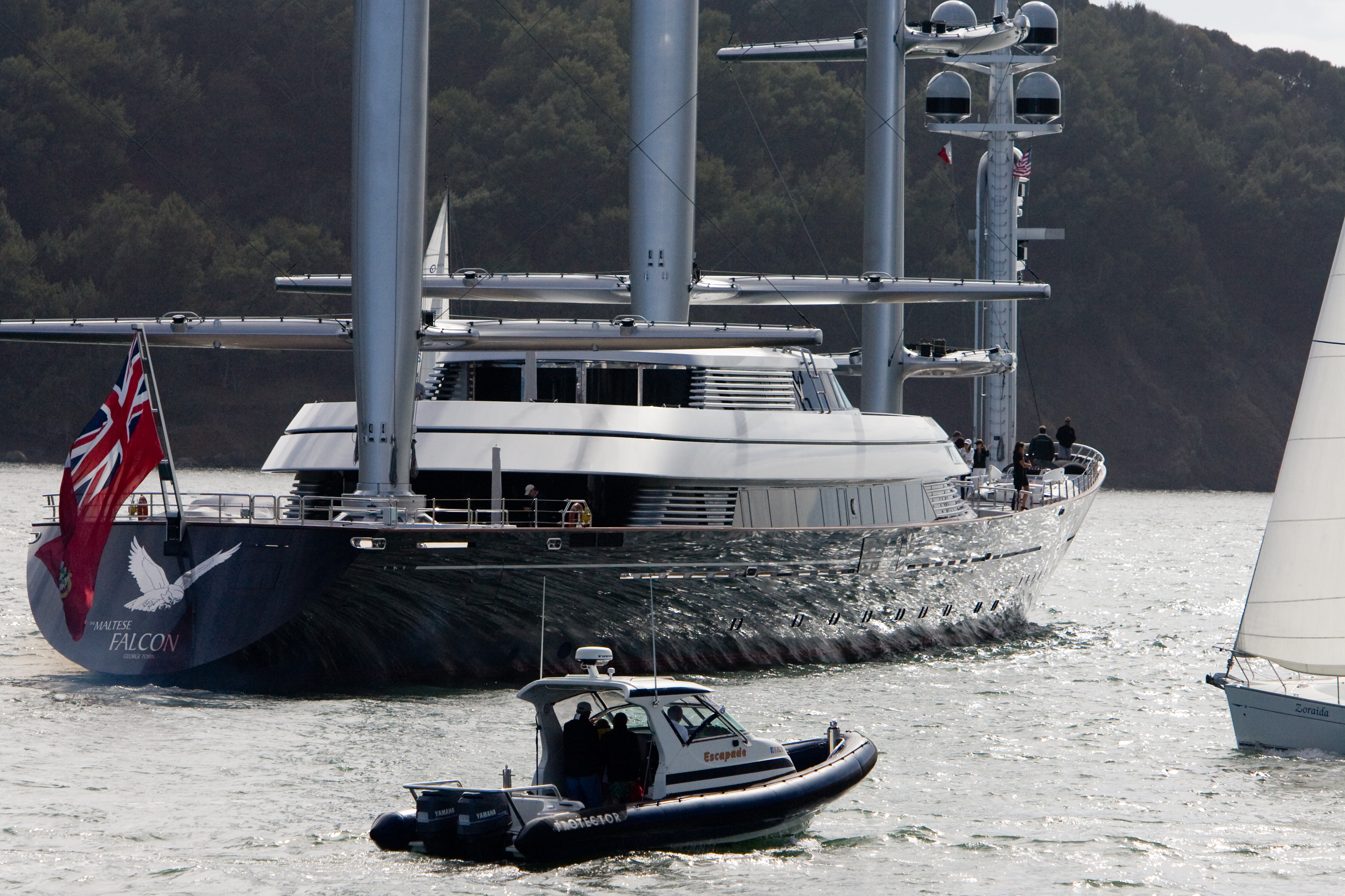 The Maltese Falcon, luxury yacht owned by Tom Perkins sailing in San Francisco Bay. Photo taken with Angel Island in background.